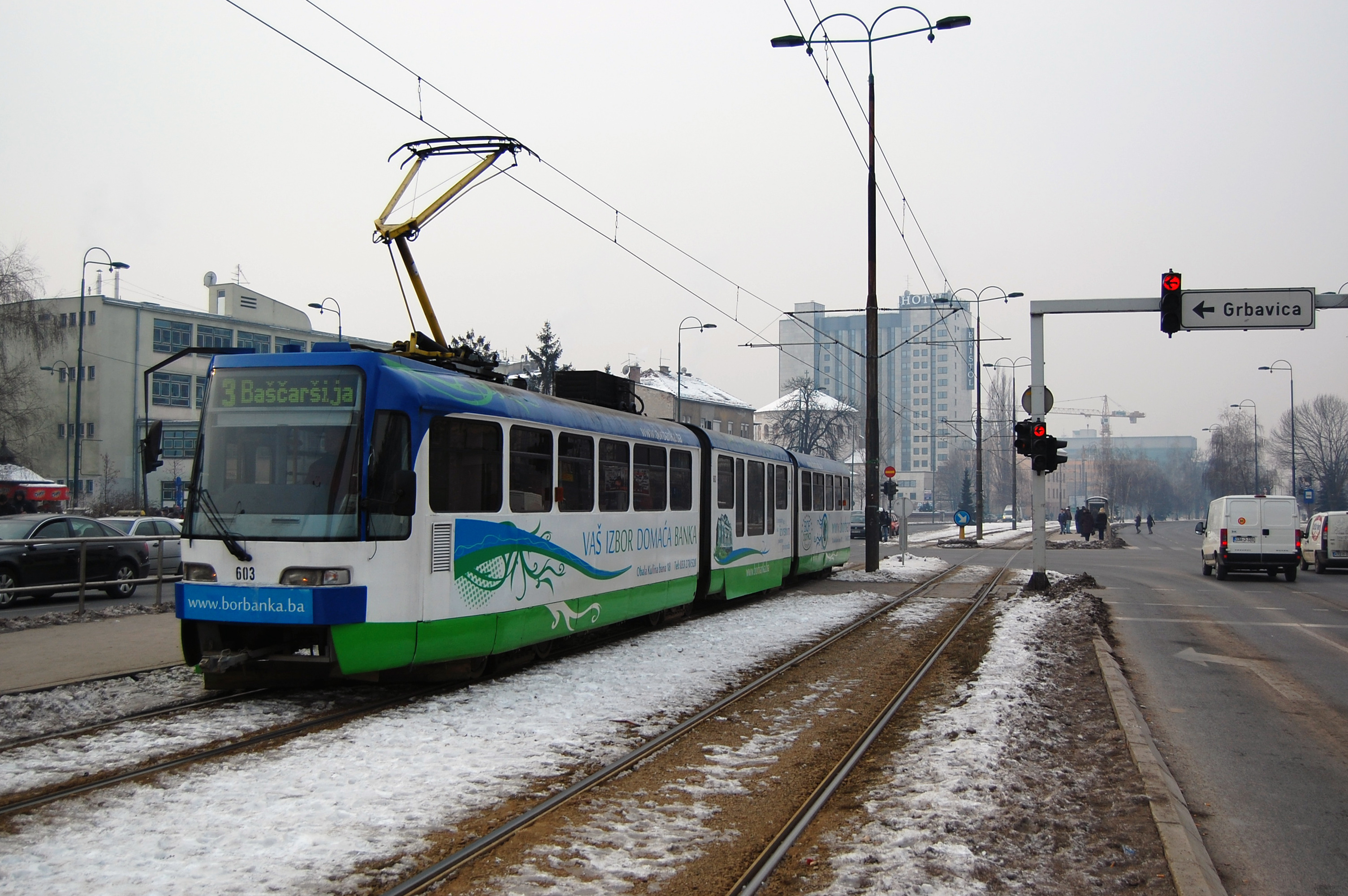 Tram #603 at Pofalići, Line #3, February 1, 2012